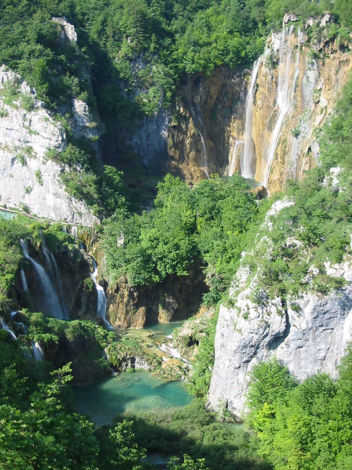 Plitvice lakes, Croatia.